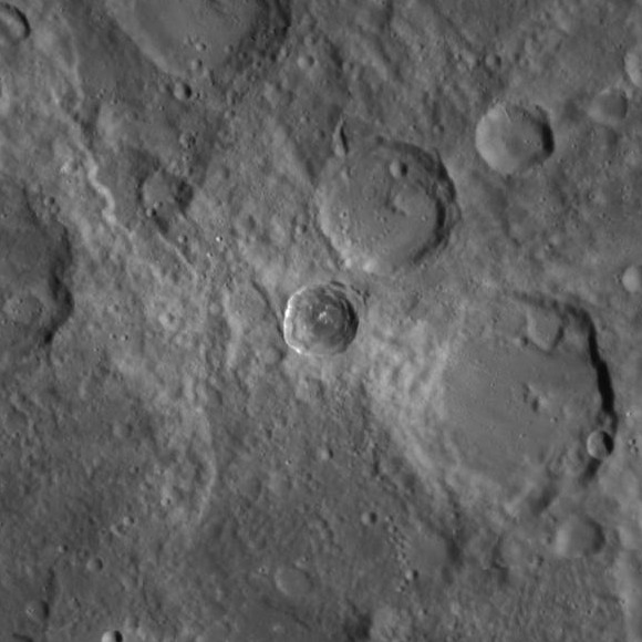 David crater (center), on Mercury, with part of its ray system. MESSENGER Wide Angle Camera mosaic. Image is approximately 192 km wide.